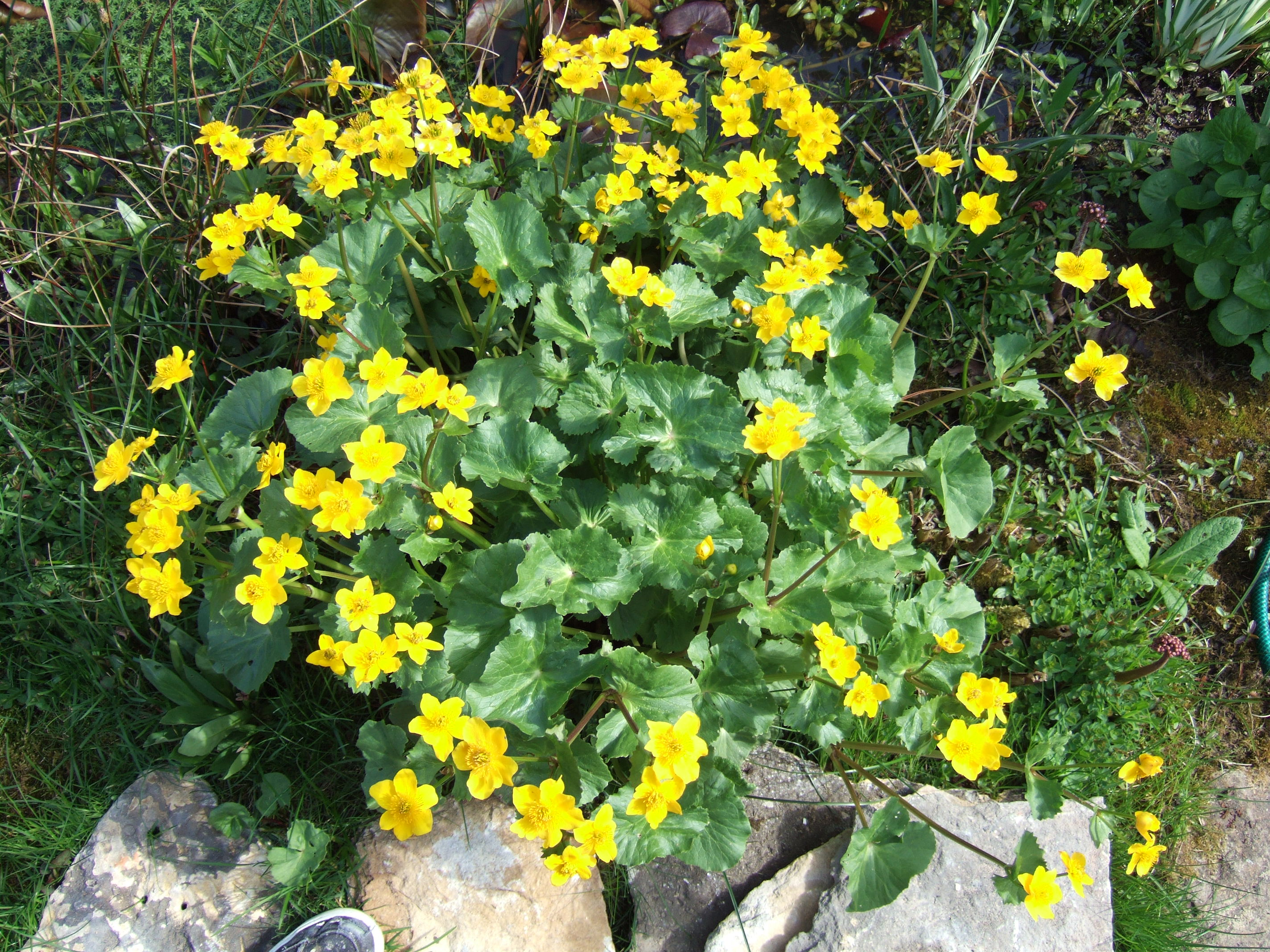 Caltha palustris flowering beside a garden pond in England, 22 April 2007. The plant with rounded leaves on the right side of the picture is Caltha palustris var. alba, a white-flowered and much smaller botanical variety which had finished flowering by the time this photgraph was taken.